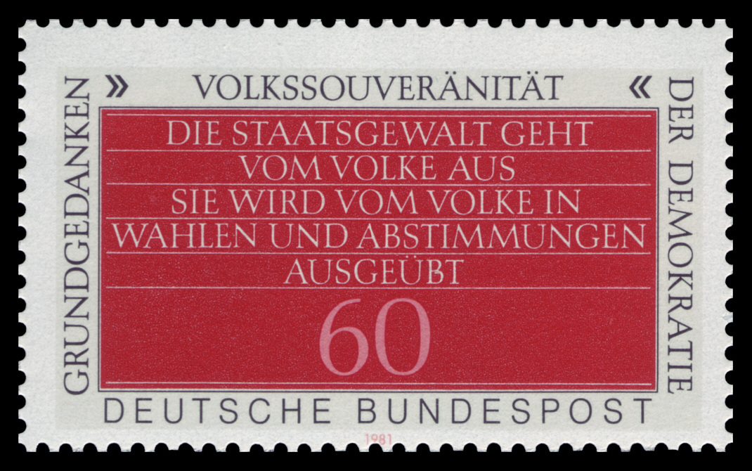 fundamental ideas of democracy